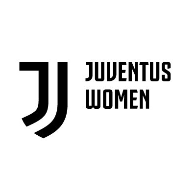 Secondary logo of the Juventus Football Club Women Team, colloquially called Juventus Women (2017).